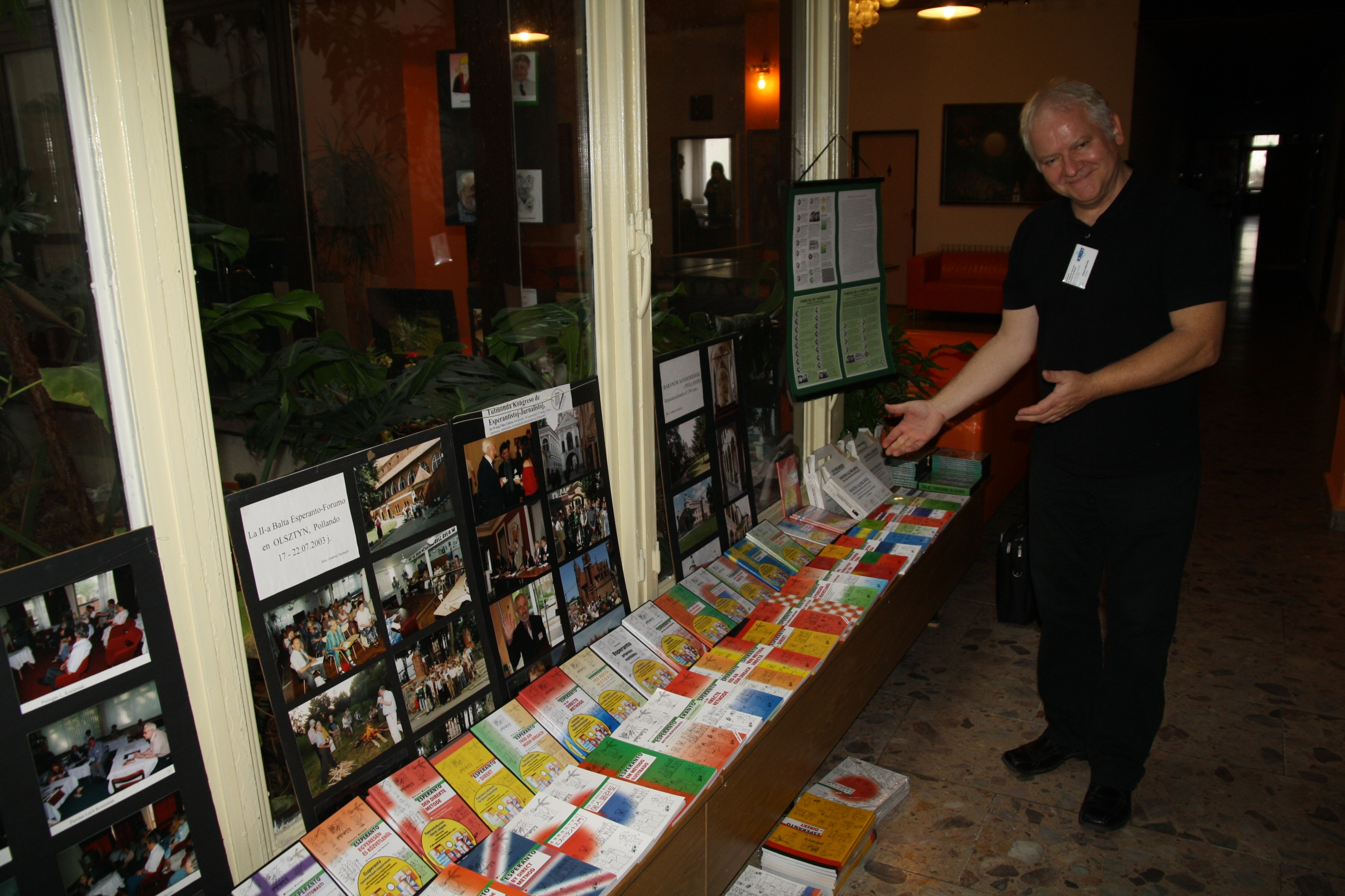 Stano Marček during KAEST 2012 in Modra, Slovakia.